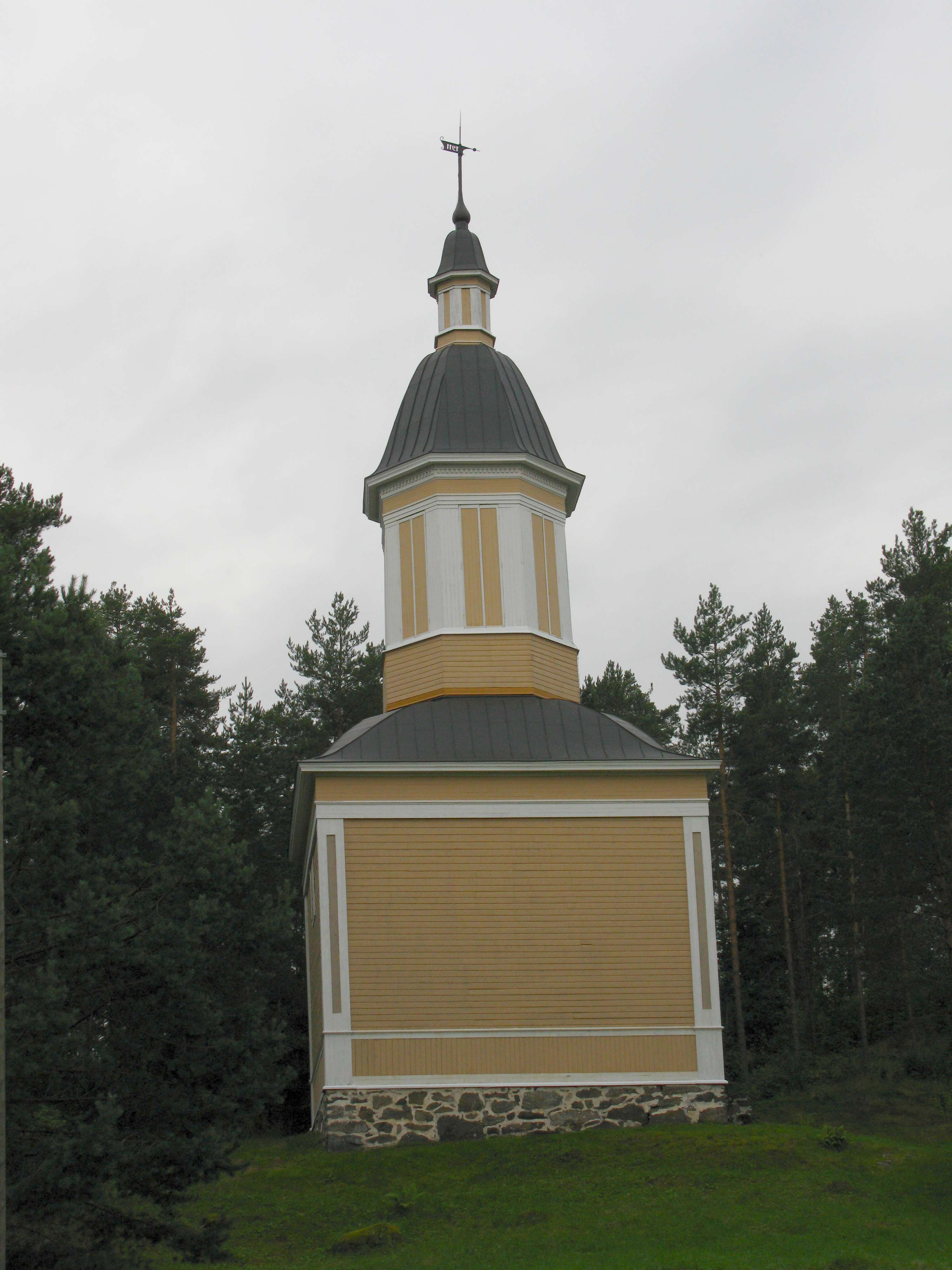 The belltower of the church of Parikkala, Finland